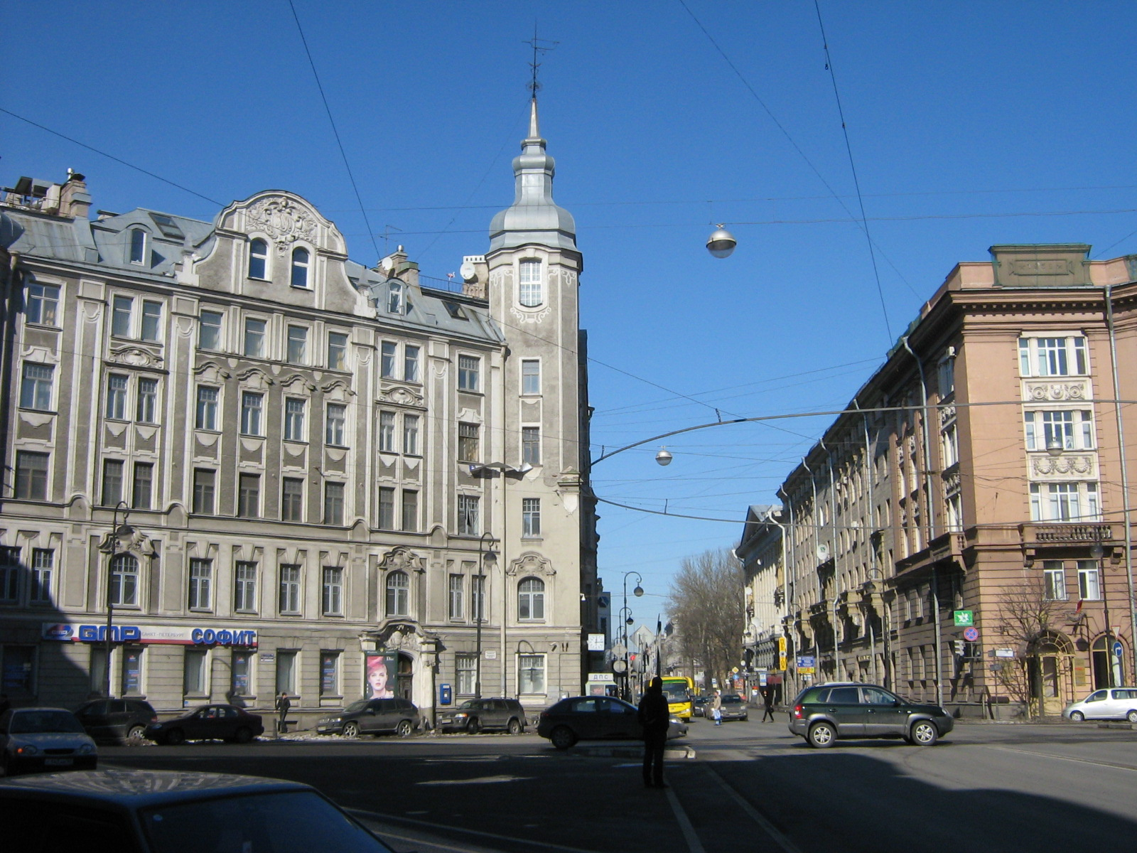 Avstriiskaya square and Kamennoostrovsky prospect in Saint-Petersburg, Russia